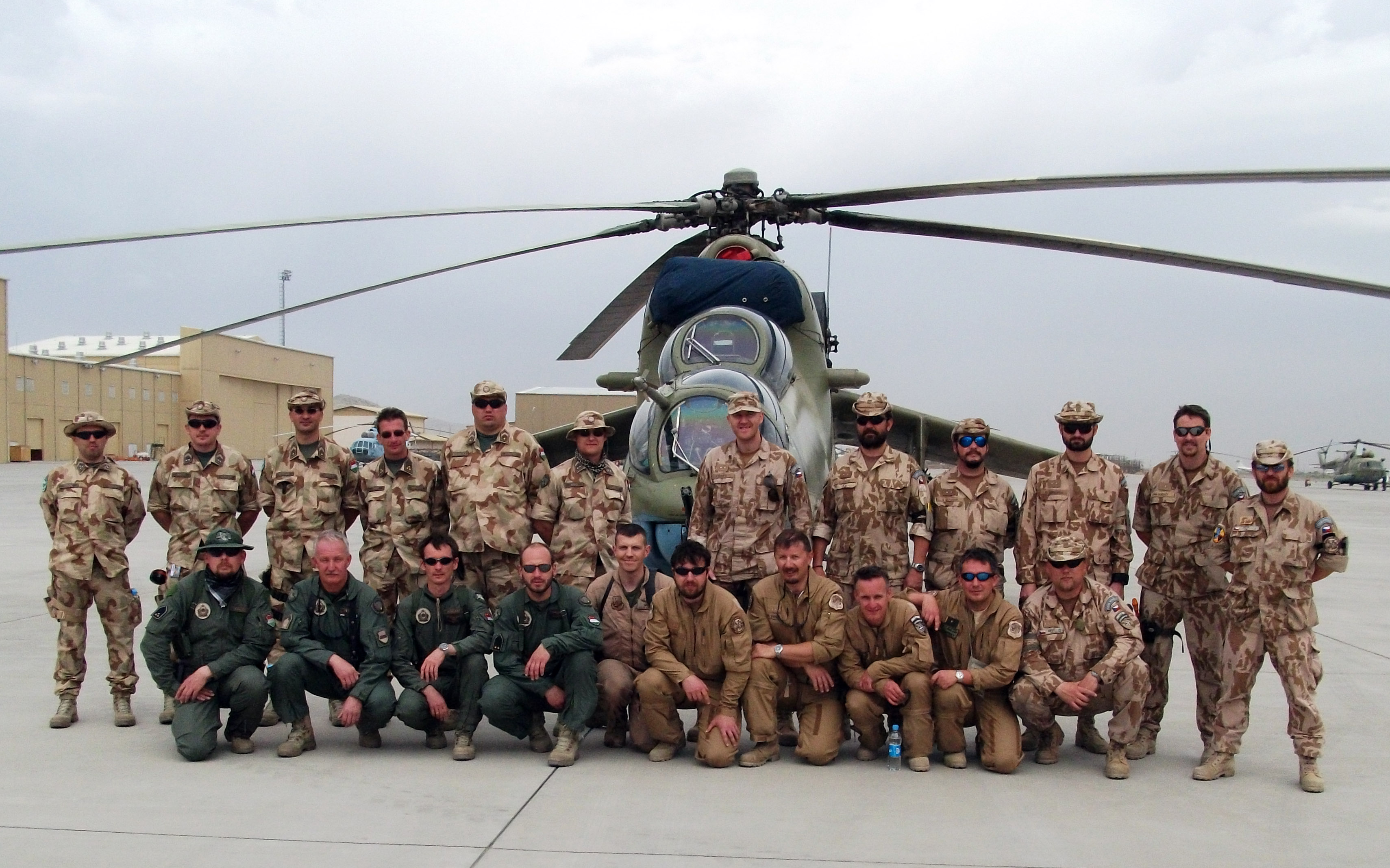 100501-F-5188L-001 KABUL, Afghanistan -- Group shot of the first multi-national flight of Czechs, Hungarians, and American mentors in Afghanistan on May 01, 2010, at the Afghan National Army Air Corps base in Kabul, Afghanistan. (US Air Force photo by Capt. Robert Leese/ RELEASED).